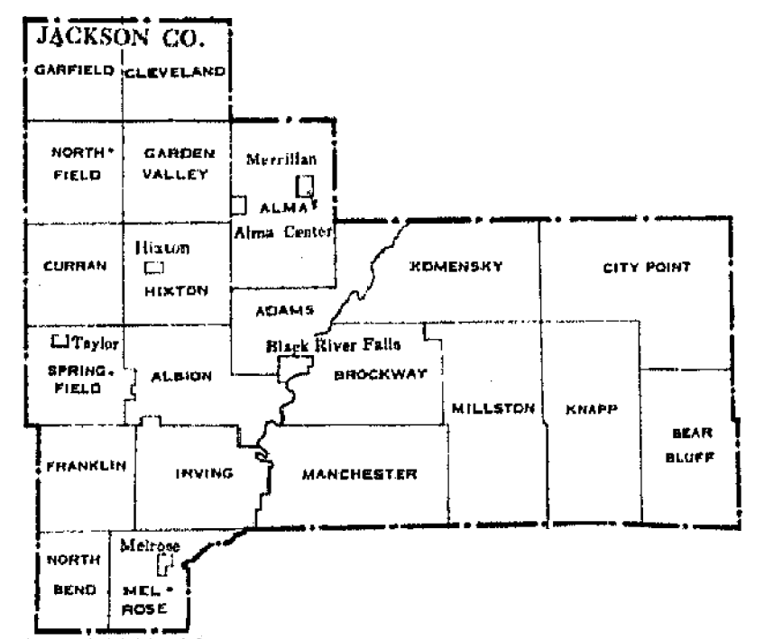 Map of Jackson County, Wisconsin Townships extracted from minor civil divisions map of Wisconsin contained in 1960 U.S. Census, Part 51, Wisconsin